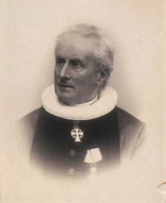 Johannes Clausen (1830-1905), Danish bishop